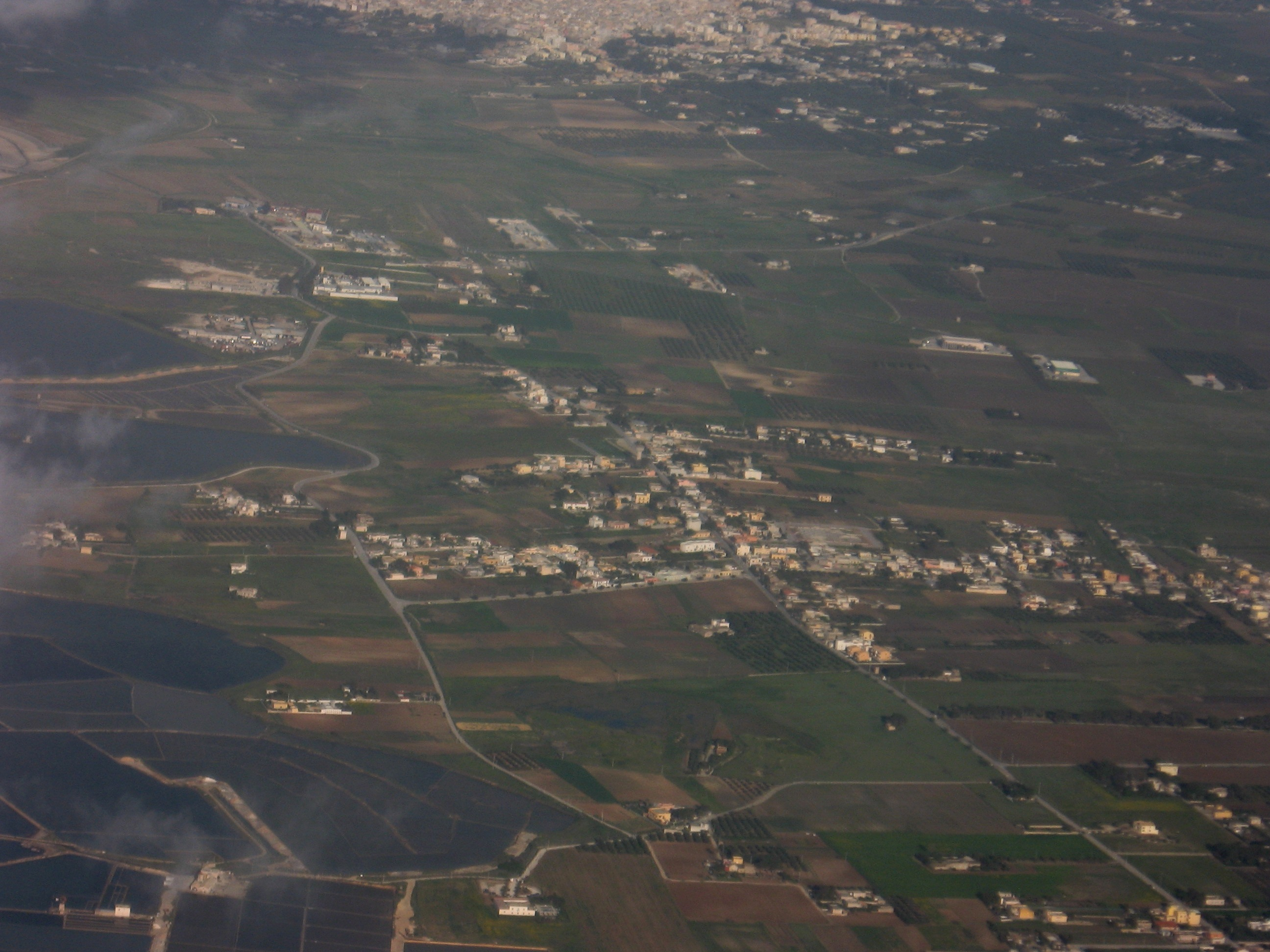 View on Nubia